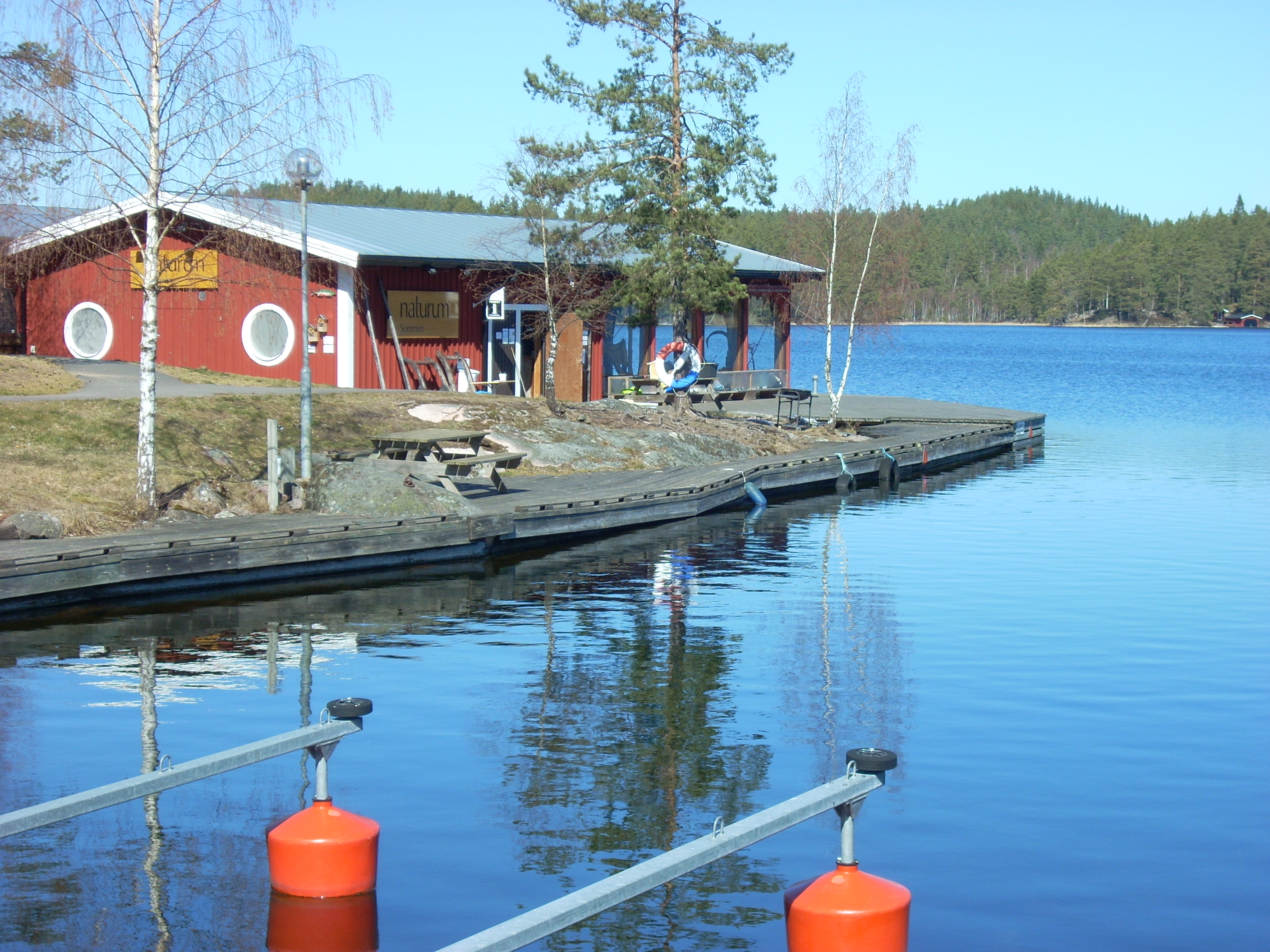 View of the building of Naturum Sommen next to the lake Sommen. A pine and spruce forest can be seen in the background. Birches in the picture have still not opened it leaves.